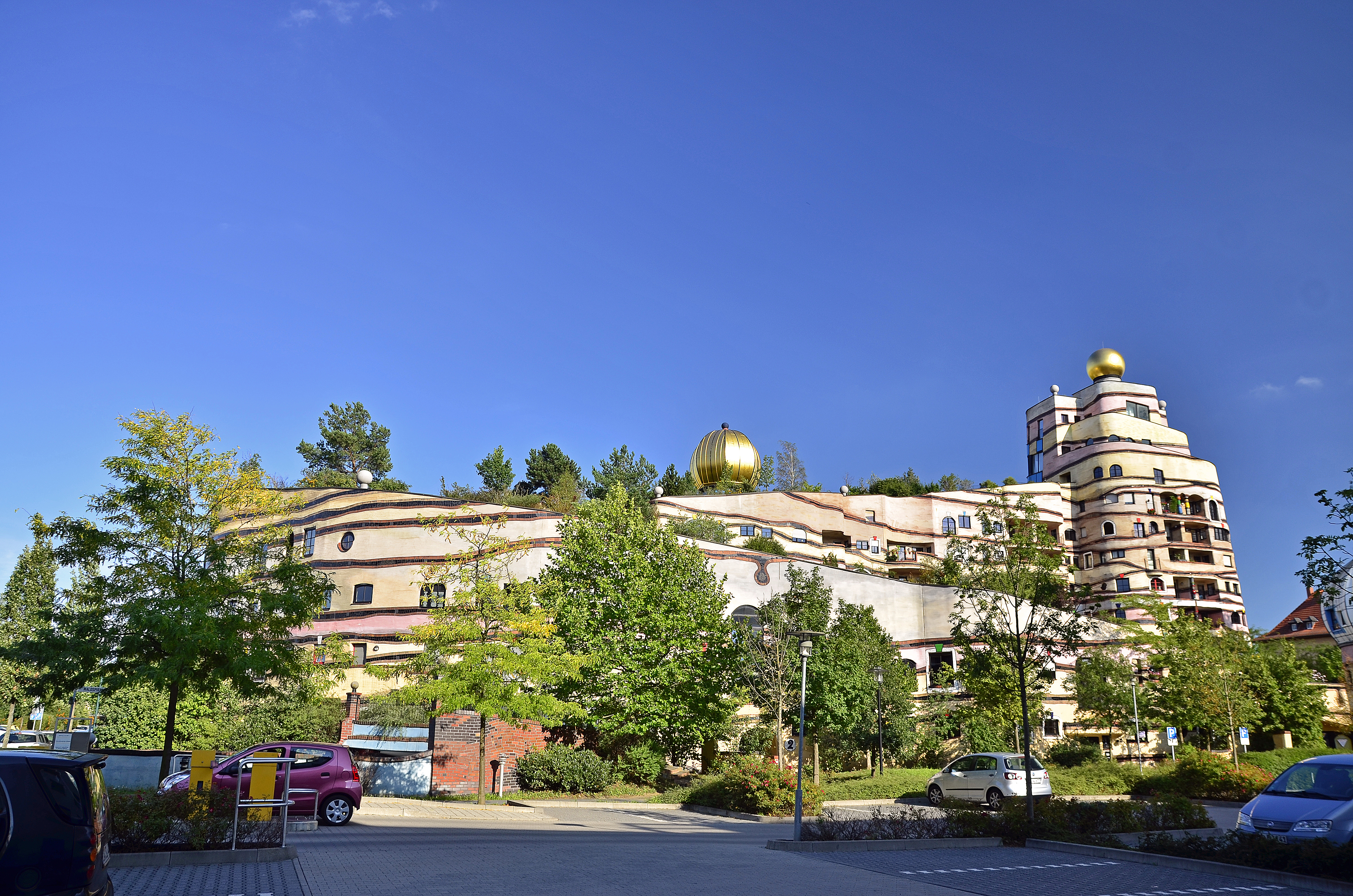 Darmstadt, Waldspirale, Hundertwasser-House